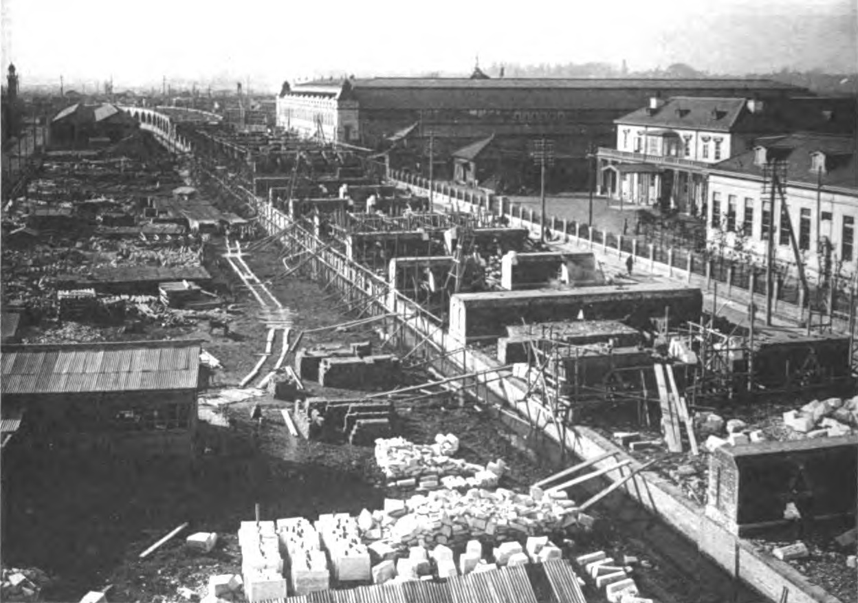 Construction work of viaduct that carries Tokaido mainline to Tokyo station.